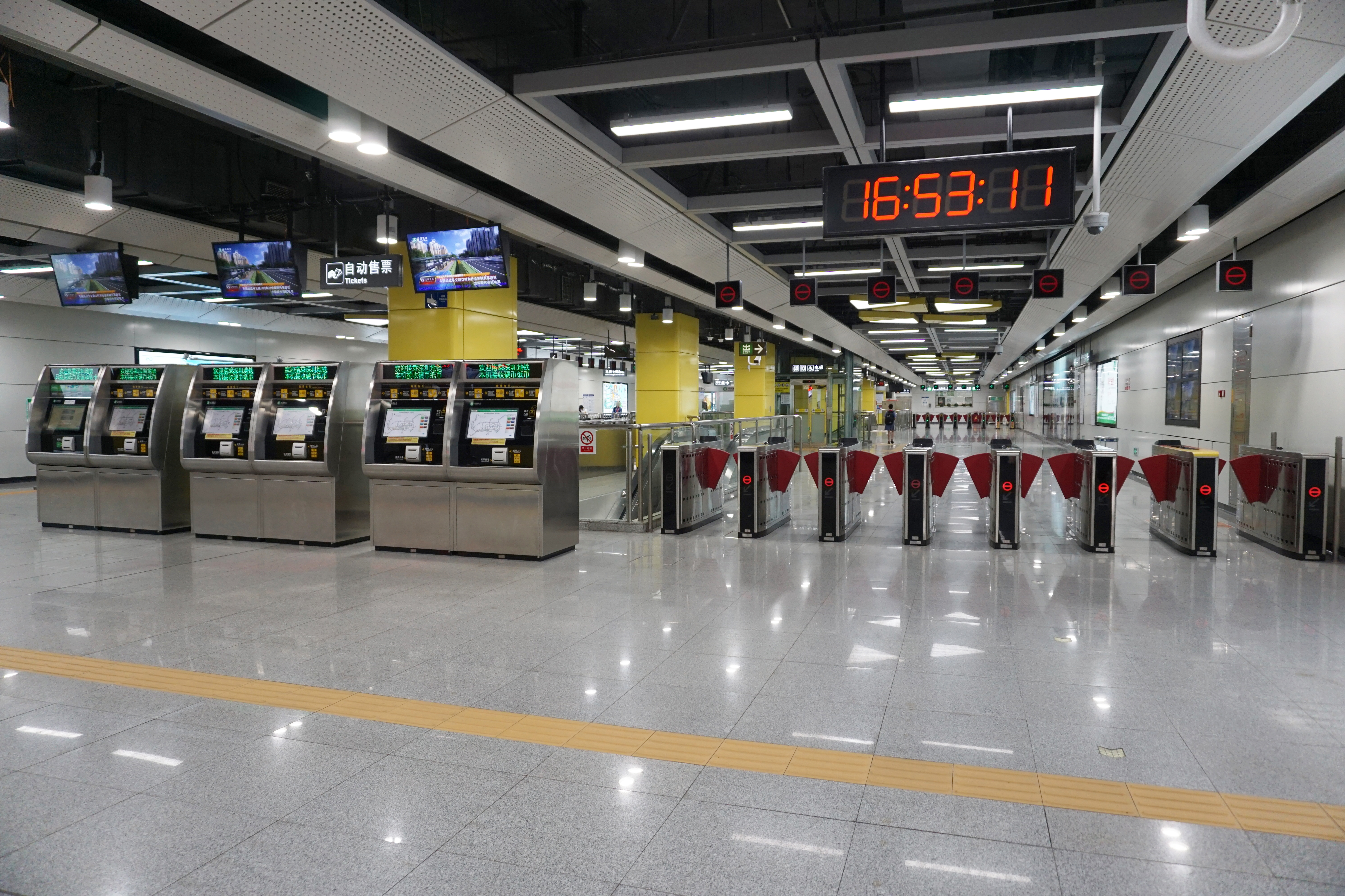 Chiwei Station in Futian District, Shenzhen.